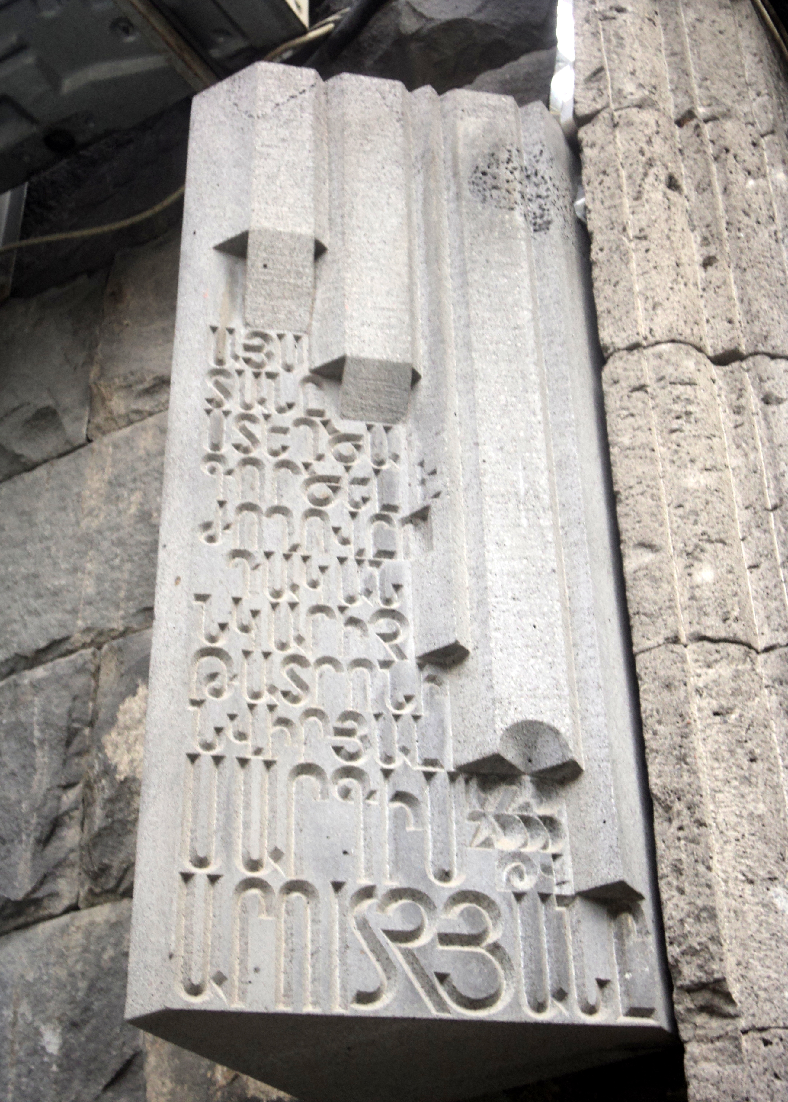 Sargis Arutchyan's plaque